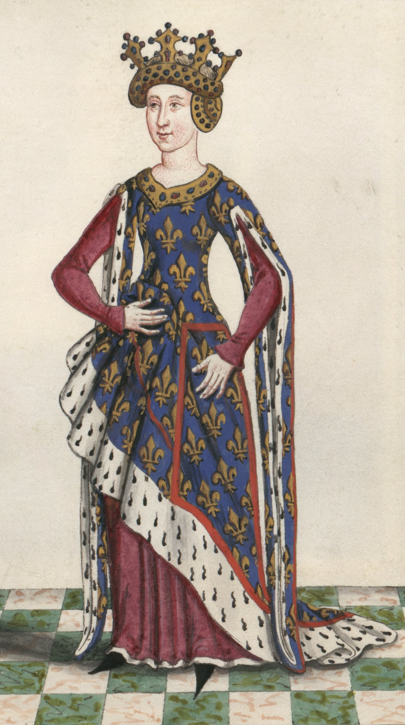 Isabella of Valois (1313-1388)